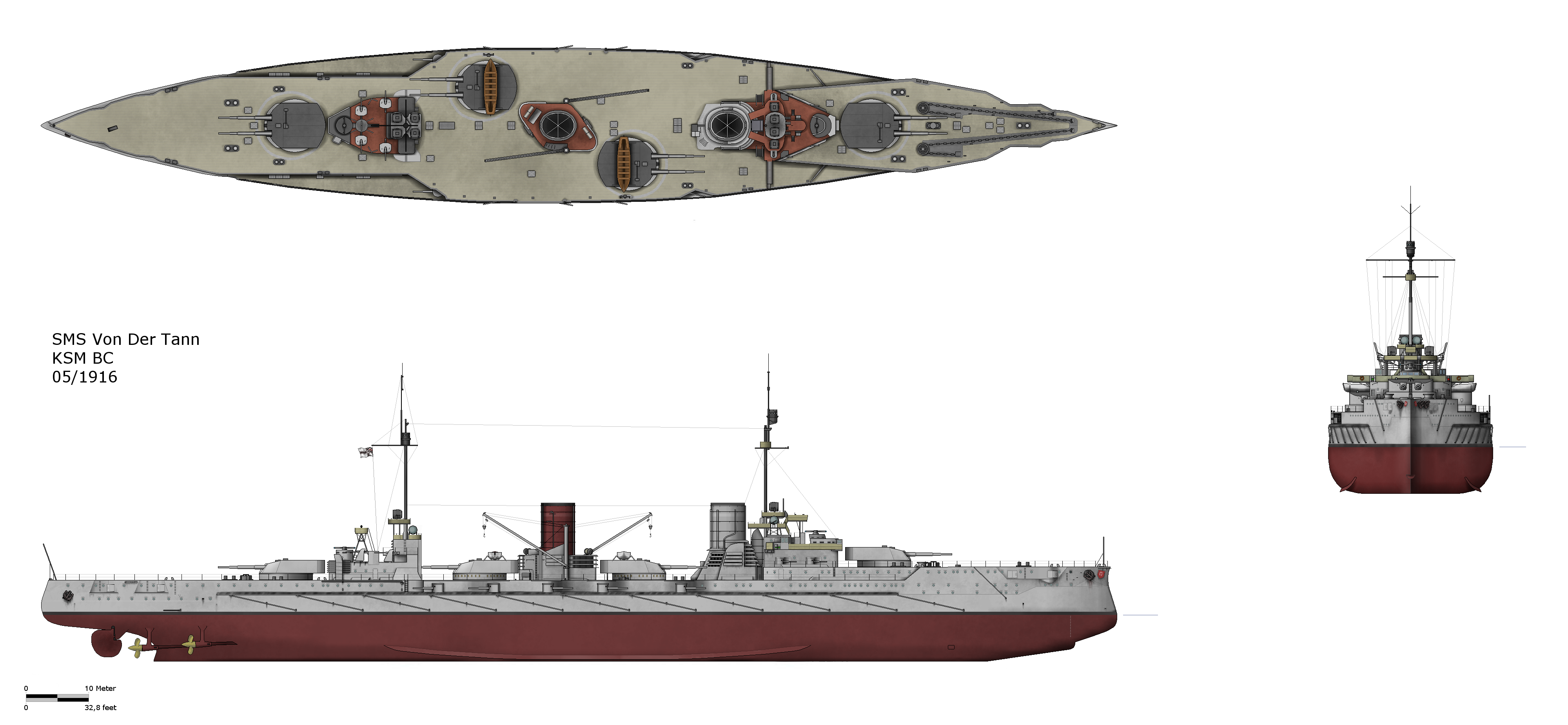 3 view drawing of the german imperial battlecruiser SMS Von Der Tann in her appearance in May 1916. She still carried the torp. nets and had been equipped with enclosed spotting tops on the masts and four 8,8 cm FK AA-guns had been installed on her aft superstructure, instead of the original 8,8 cm SK guns. The gunpositions in the hull, close to the bow und the stern, had been welded shut and the weapons removed earlier in the war. Two 7,92 machineguns had been installed on new platforms above the bridge. Additional info obtained from: Gary Staff: German Battlecruisers of World War One., Pen & Sword Books, 2014, ISBN 978-1848322134 Gerhard Koop), Klaus Schmolke: Vom Original zum Modell, Die großen Kreuzer - Von der Tann, Moltke-Klasse, Seydlitz, Derfflinger-Klasse Bernard & Graefe, 1997, ISBN 3763759735 Various photographs